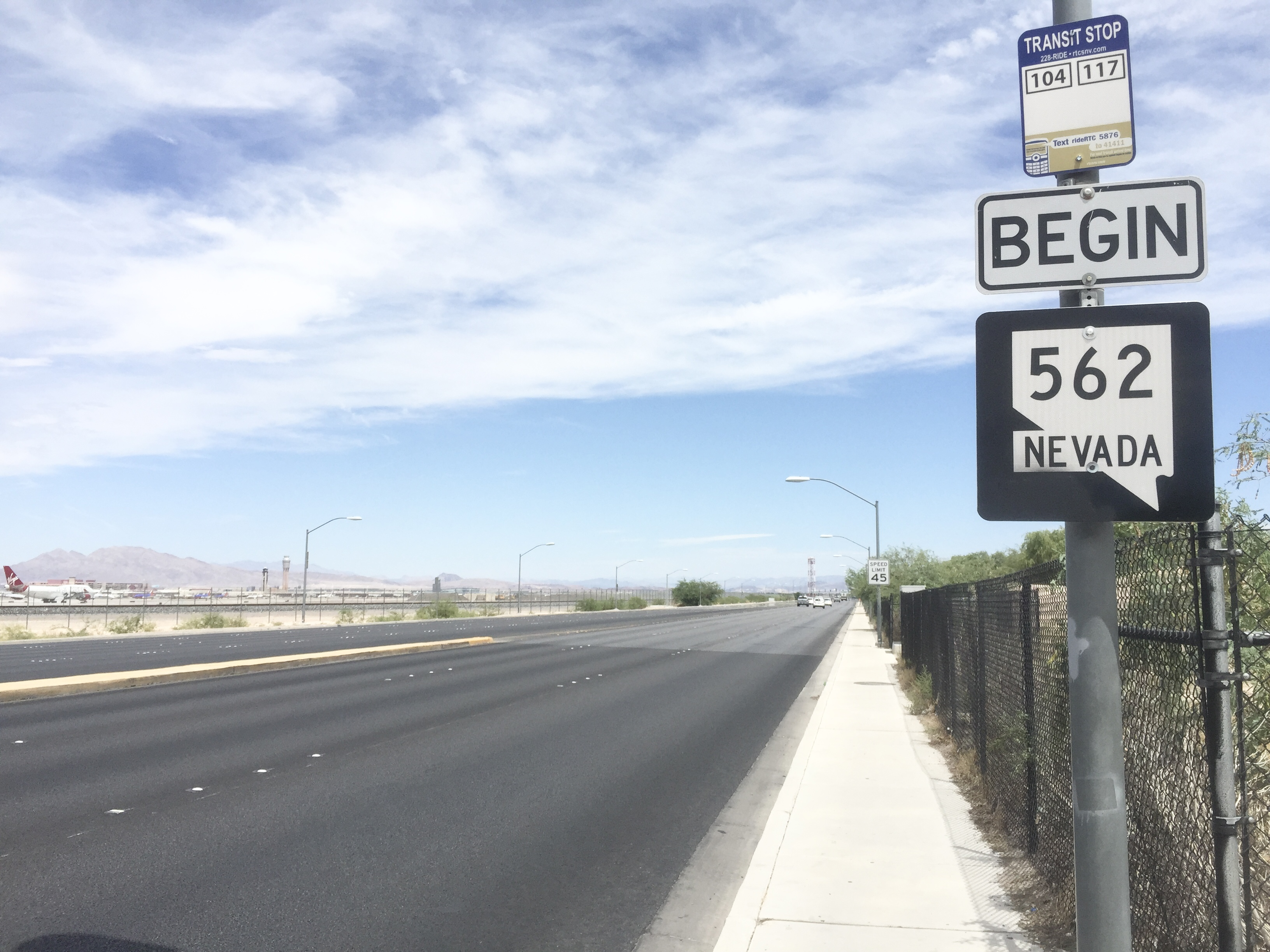 View east from the west end of Nevada State Route 562 (Sunset Road) near Las Vegas, Nevada